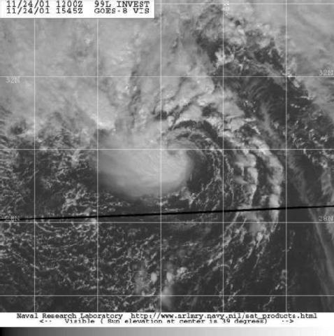 Olga as a subtropical storm on November 24, 2001